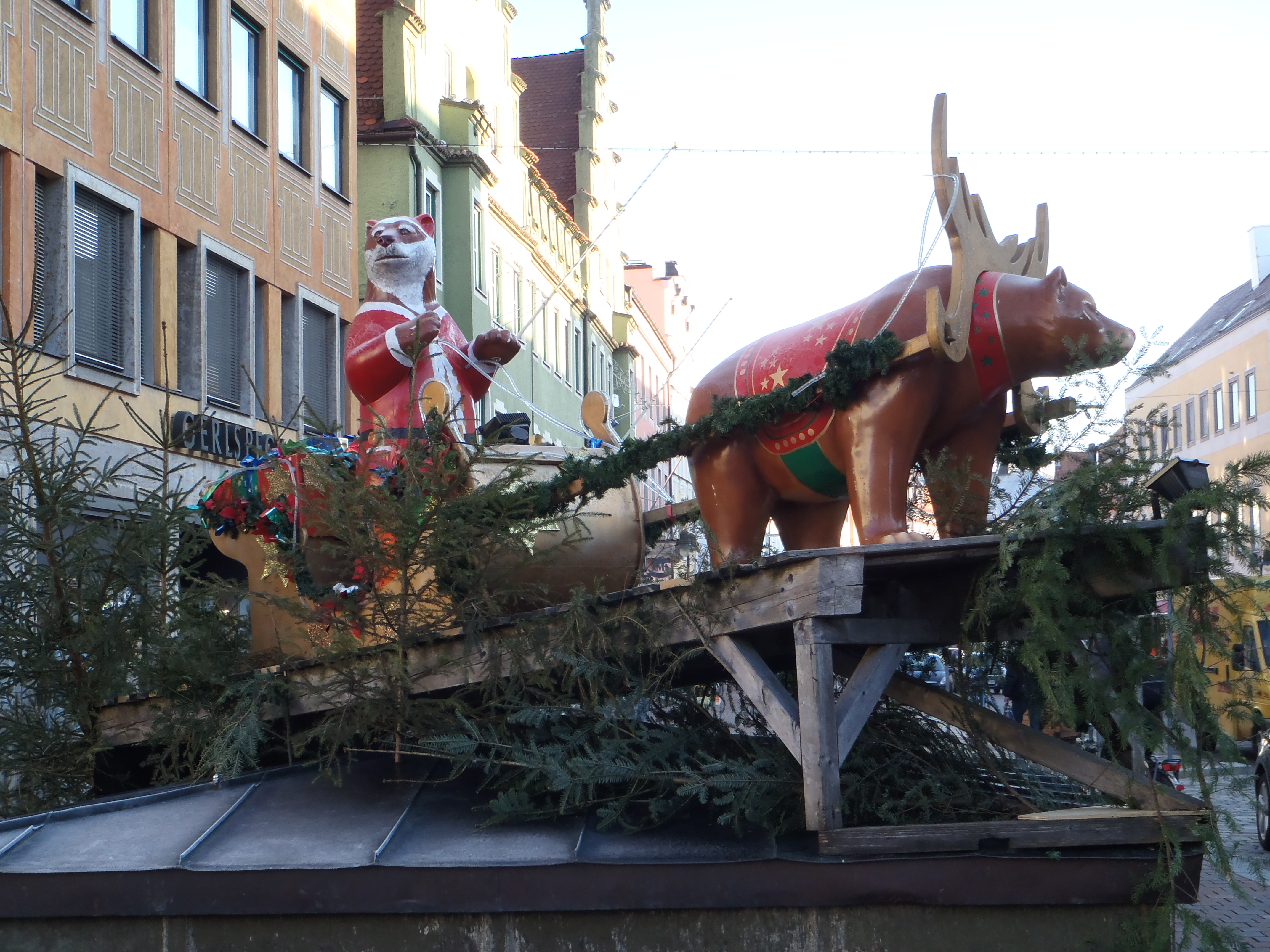 Christmas decoration in Freising (Upper bavaria)